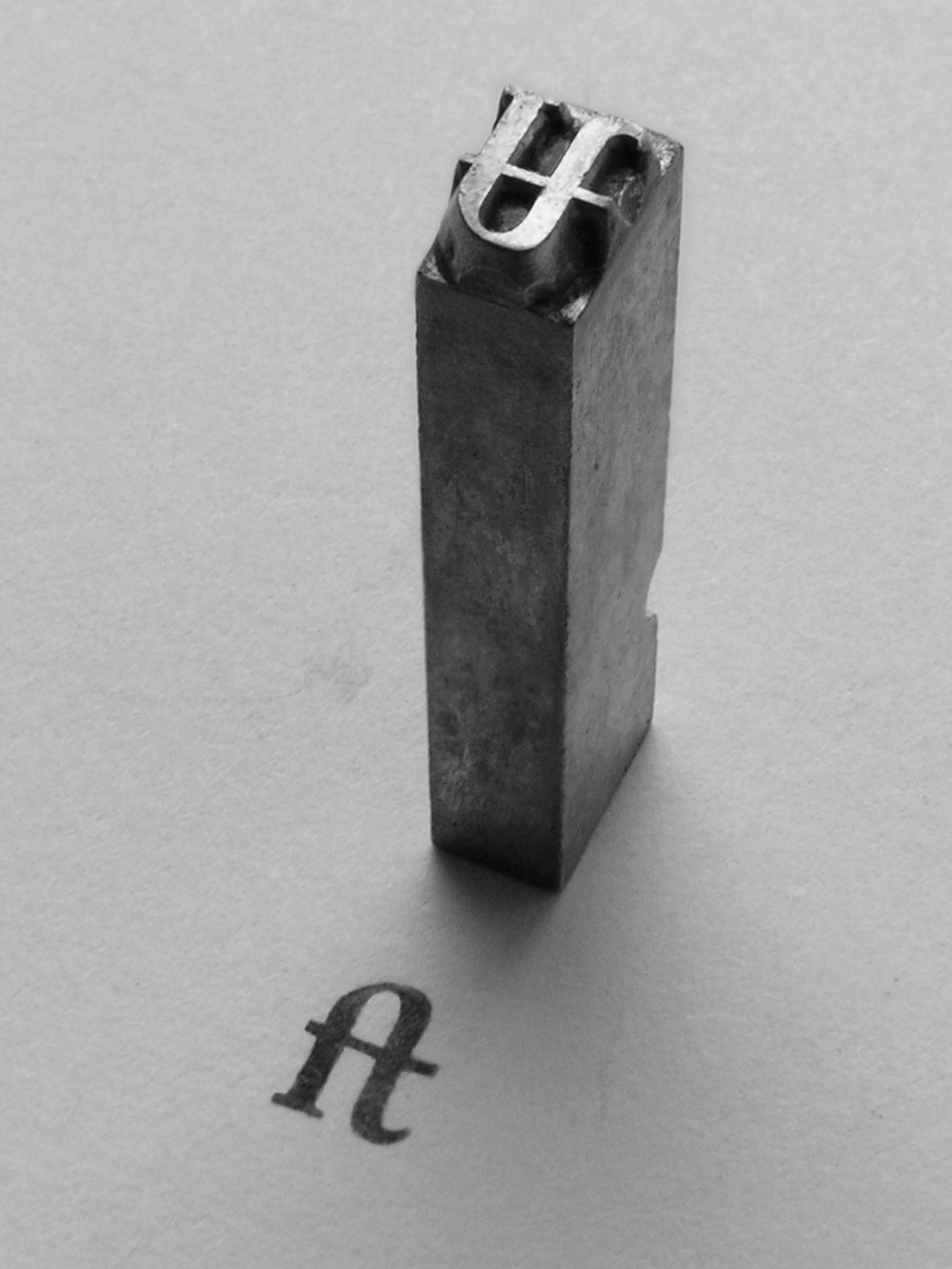 ft-ligature type in 12p Garamond